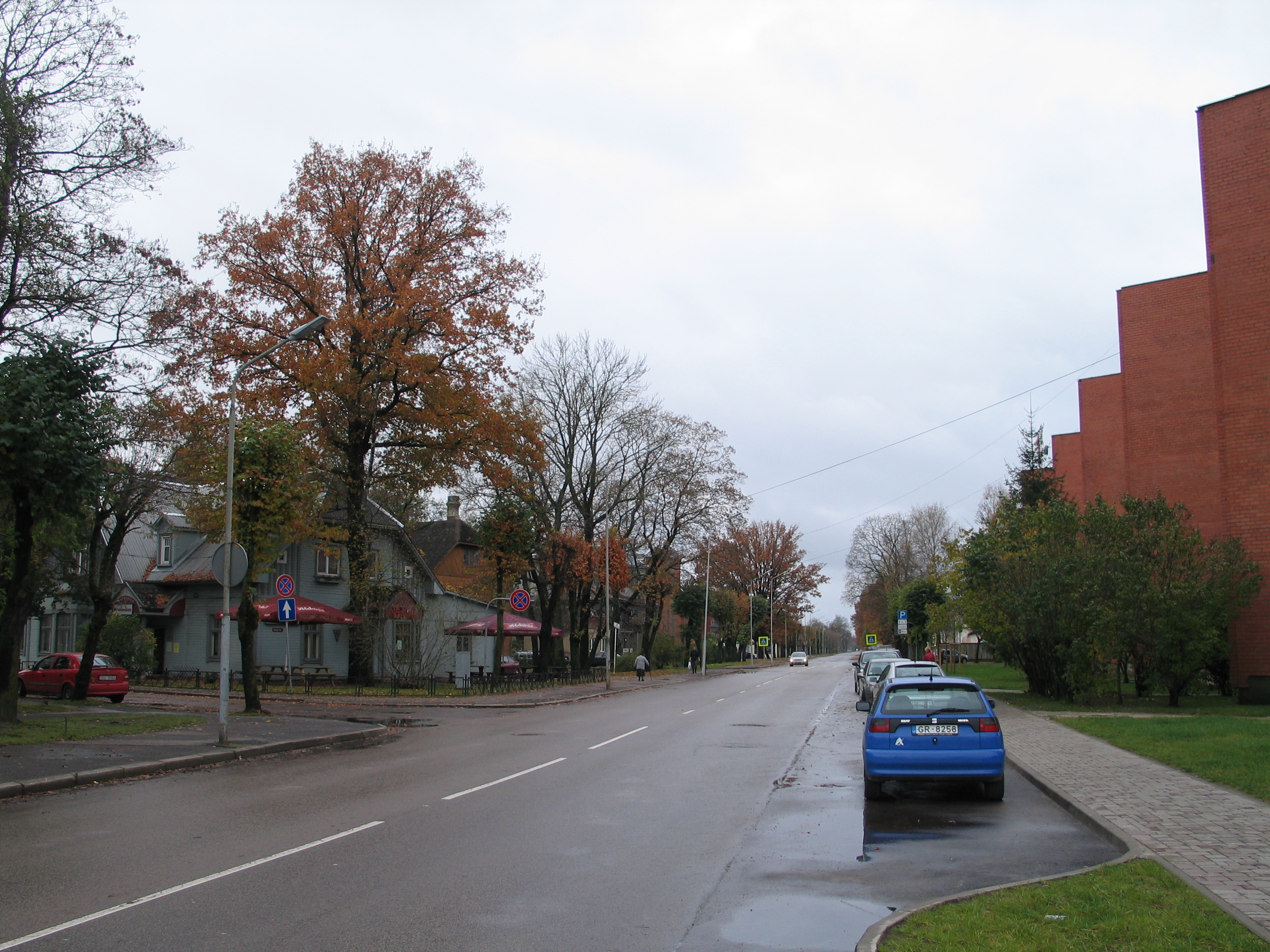 Dambja Street in Jelgava